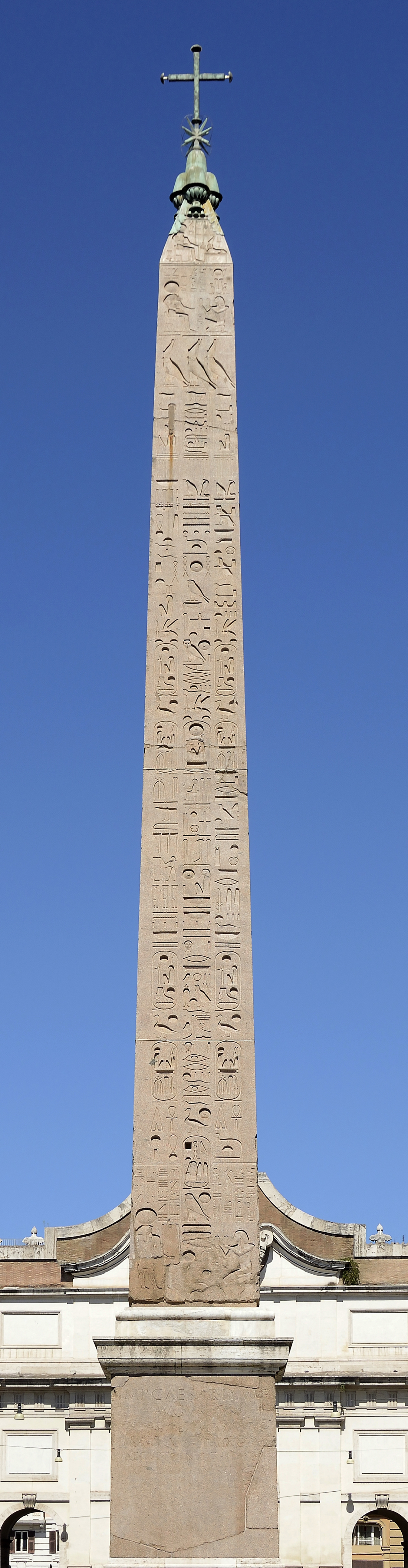 Flaminio obelisk. The obelisk, known as the obelisco Flaminio or the Popolo Obelisk, is the second oldest and one of the tallest obelisks in Rome (some 24 m high, or 36 m including its plinth). The obelisk was brought to Rome in 10 BC by order of Augustus and originally set up in the Circus Maximus. It was re-erected here in the piazza by the architect-engineer Domenico Fontana in 1589 as part of the urban plan of Sixtus V. The piazza also formerly contained a central fountain, which was moved to the Piazza Nicosia in 1818, when fountains, in the form of Egyptian-style lions, were added around the base of the obelisk.